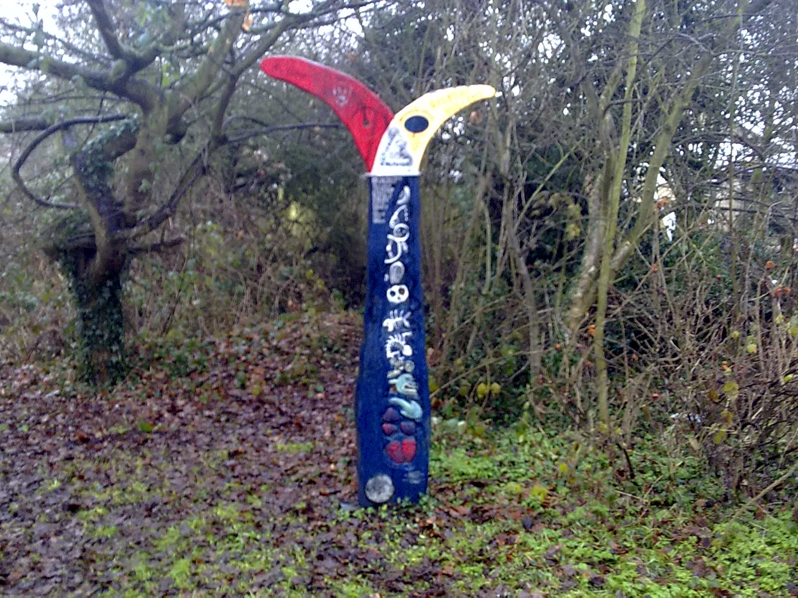 UK National Cycle Network Milepost ref MP98 at Bishopthorpe